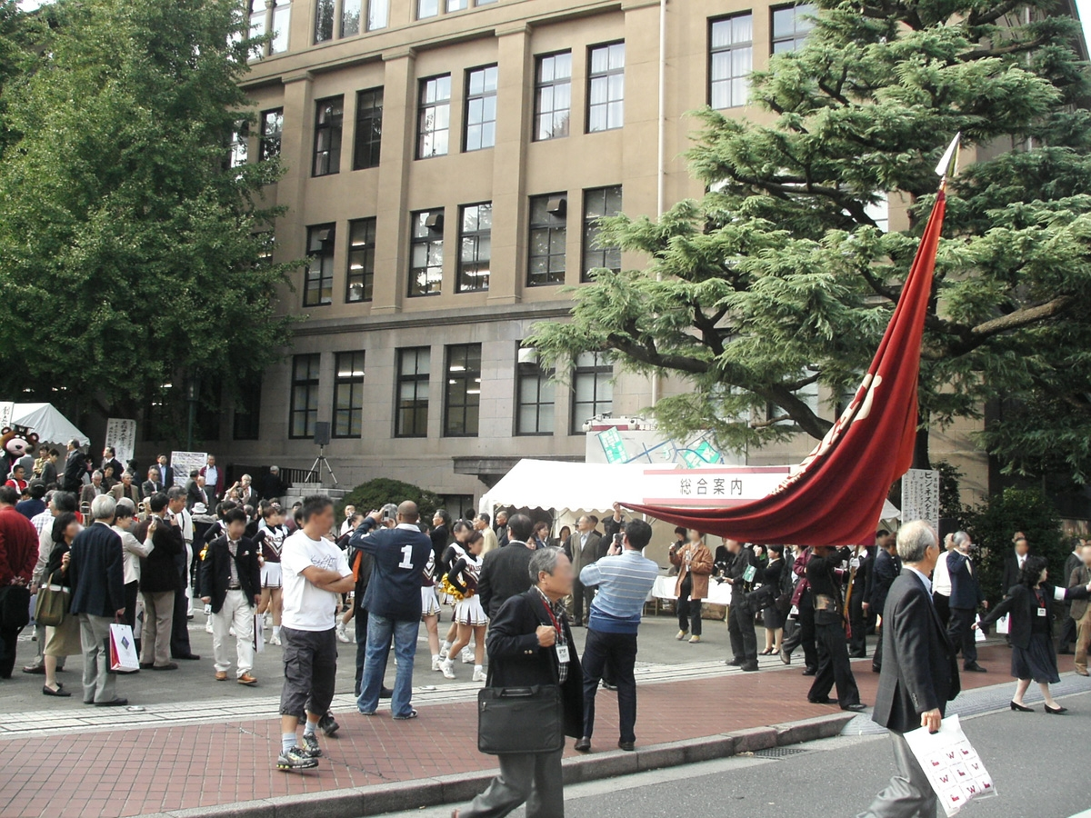 "The125th anniversary memoryevent" - Waseda University, Japan. location = 1-6-1, Nishiwaseda, Shinjuku-ku, Tokyo